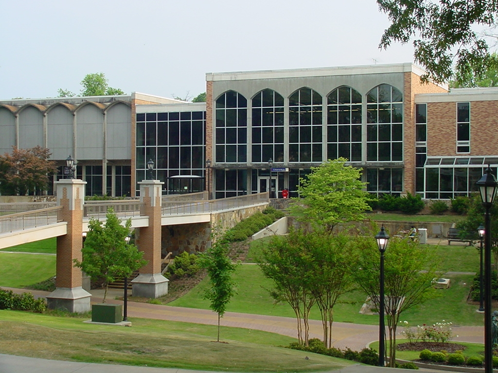 Guillot University Center, taken by me on the University of North Alabama campus, May 27, 2007.